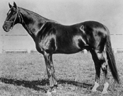 Photograph of American Thoroughbred Fonso, winner of the 1880 Kentucky Derby